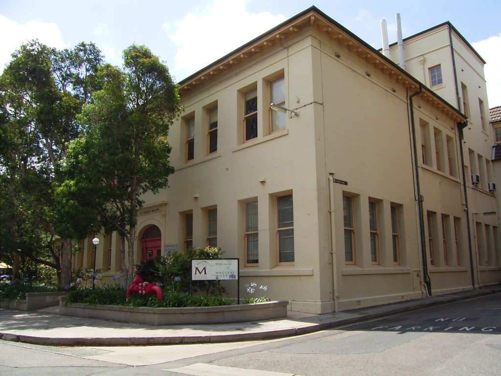 Edgeworth David Building, University of Sydney, Sydney, Australia. Own picture.